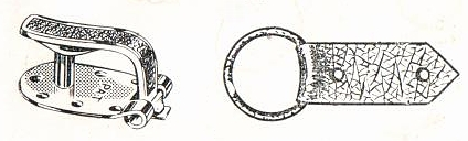 Fur coat fastener